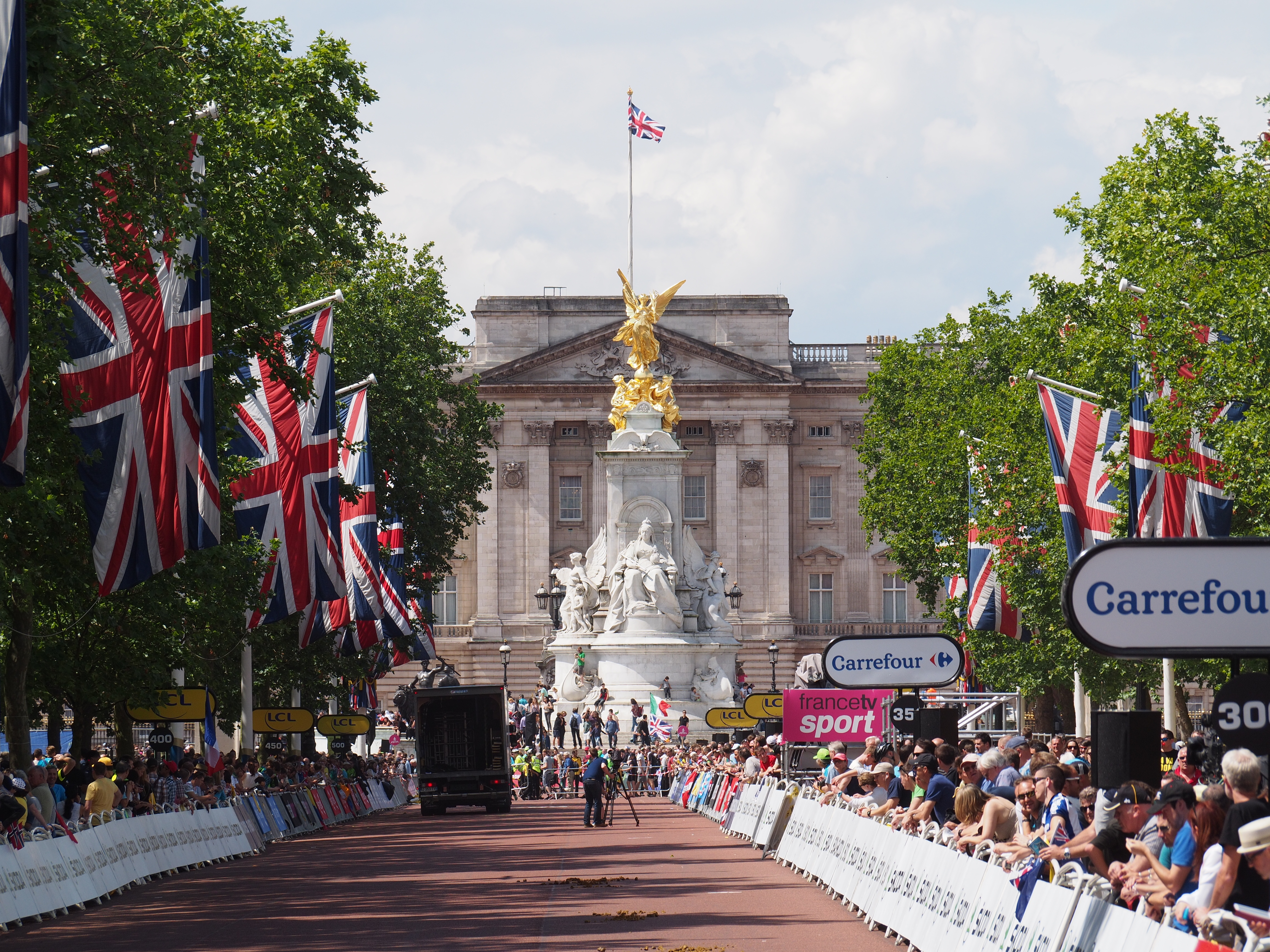 Le Tour 2014, stage 3 finishing straight along The Mall to Buckingham Palace